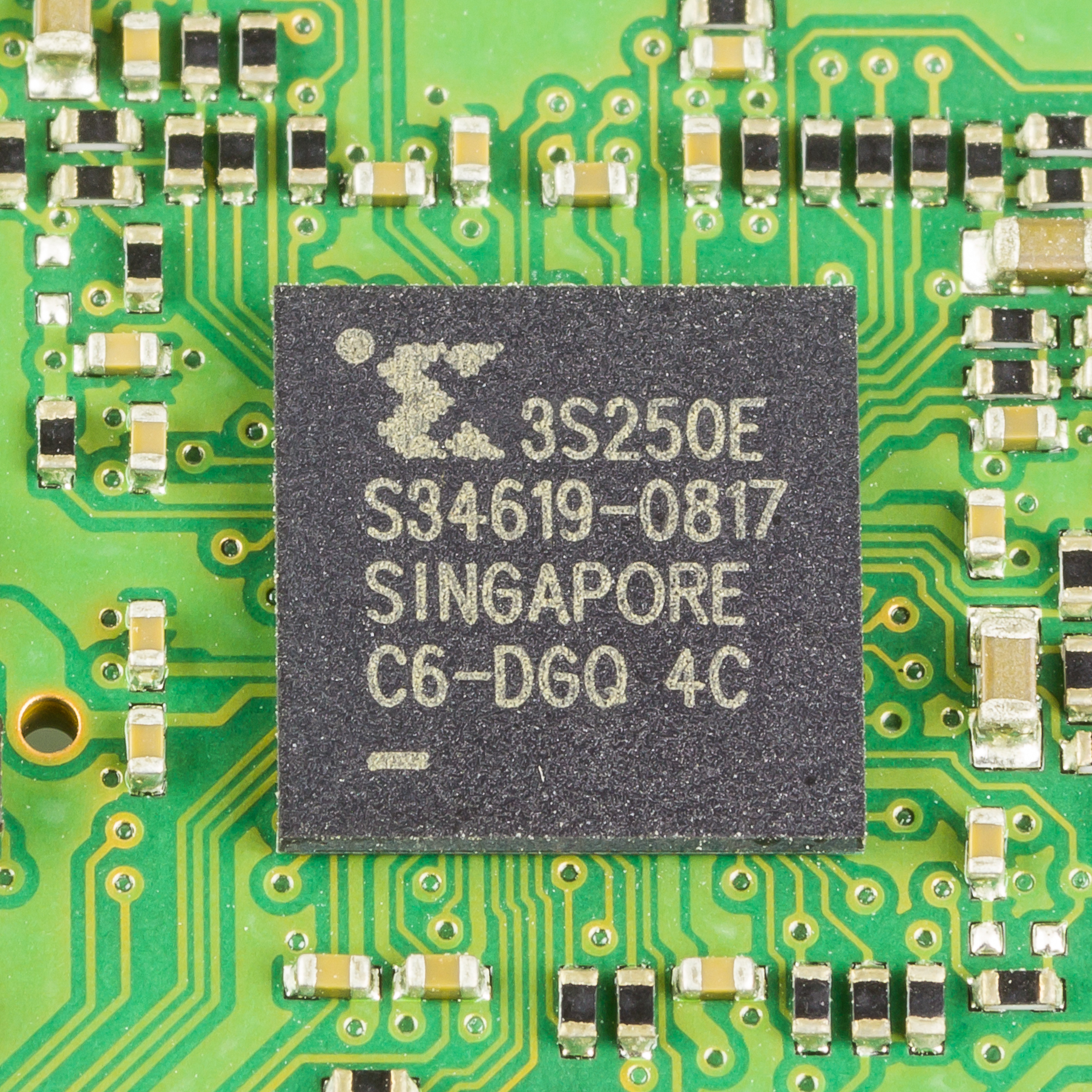 Fritz!Box Fon WLAN 7270 - Xilinx 3S250E - Spartan-3E FPGA Family (Field Programmable Gate Array)